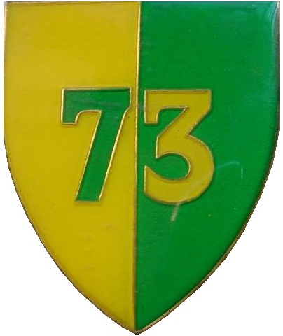 SADF era 73 Brigade emblem